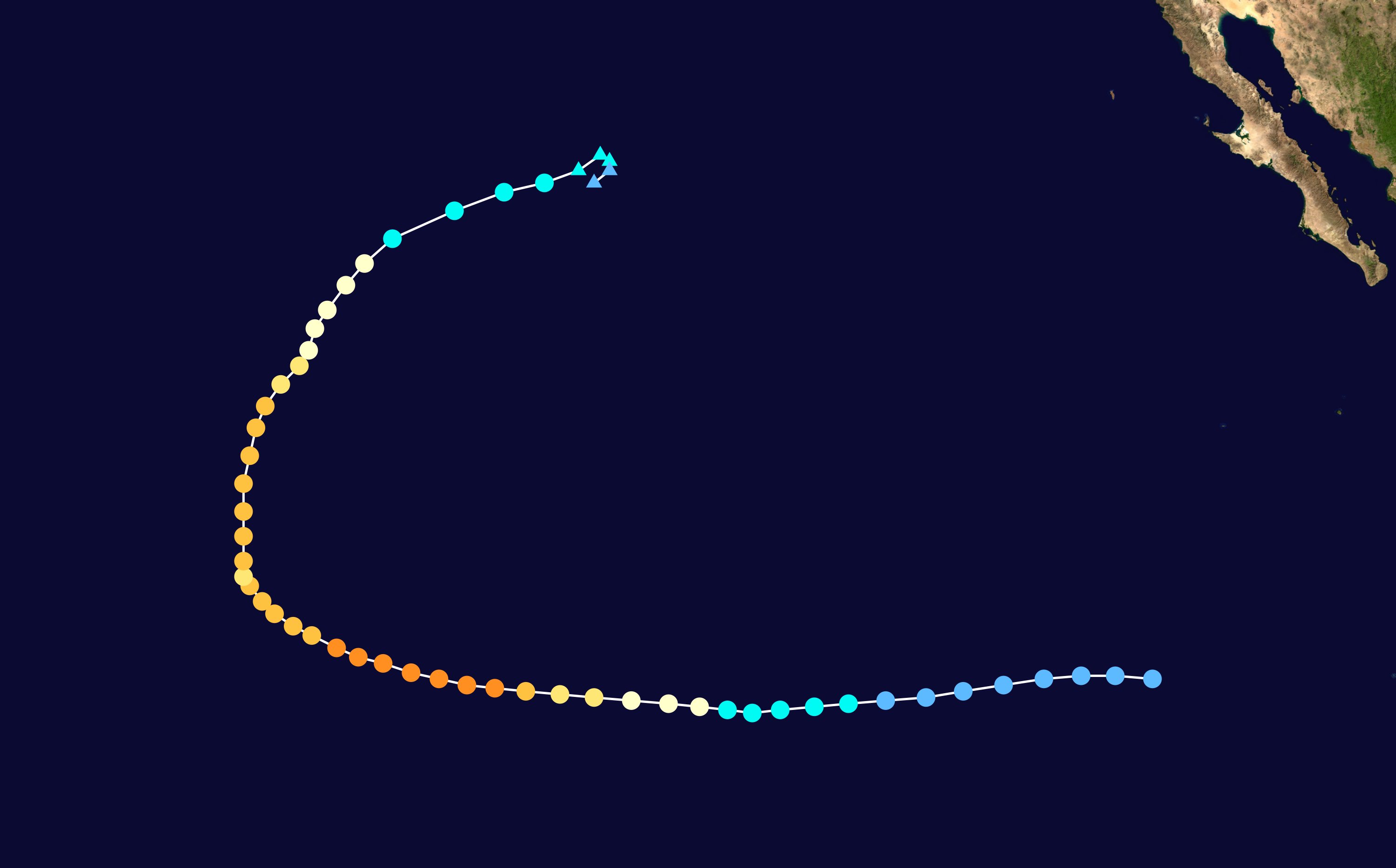 Track map of Hurricane Olaf of the 2015 Pacific hurricane season. The points show the location of the storm at 6-hour intervals. The colour represents the storm's maximum sustained wind speeds as classified in the Saffir–Simpson scale (see below), and the shape of the data points represent the nature of the storm, according to the legend below. Saffir–Simpson scale Tropical depression≤38 mph≤62 km/h Category 3111–129 mph178–208 km/h Tropical storm39–73 mph63–118 km/h Category 4130–156 mph209–251 km/h Category 174–95 mph119–153 km/h Category 5≥157 mph≥252 km/h Category 296–110 mph154–177 km/h Unknown Storm type Tropical cyclone Subtropical cyclone Extratropical cyclone / Remnant low / Tropical disturbance / Monsoon depression